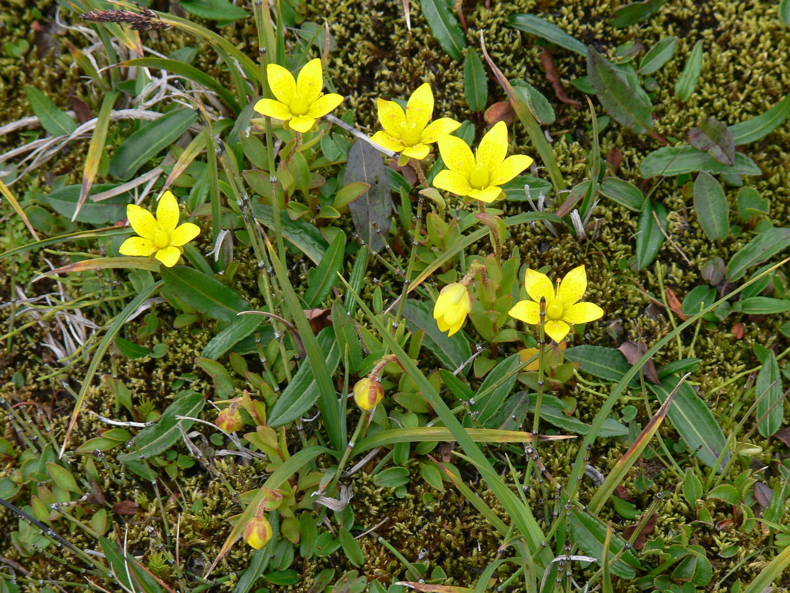 Saxifraga hirculus subsp. compacta, 1=Skaftafell National Park ( Iceland ). Yellow flowers.